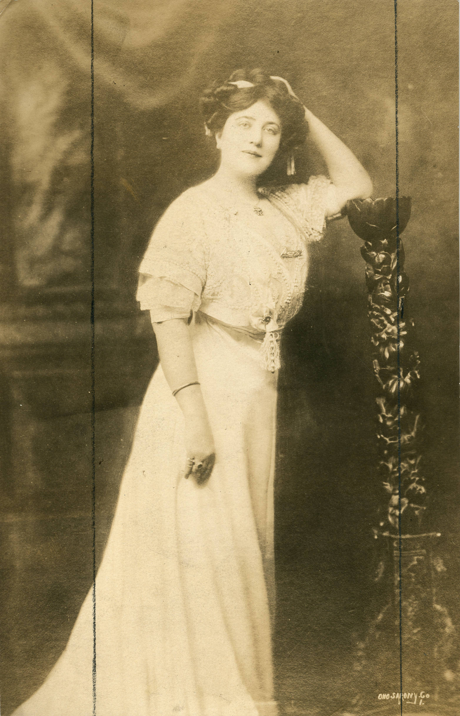 Vaudeville entertainer Dorothy Drew. Subjects: vaudeville